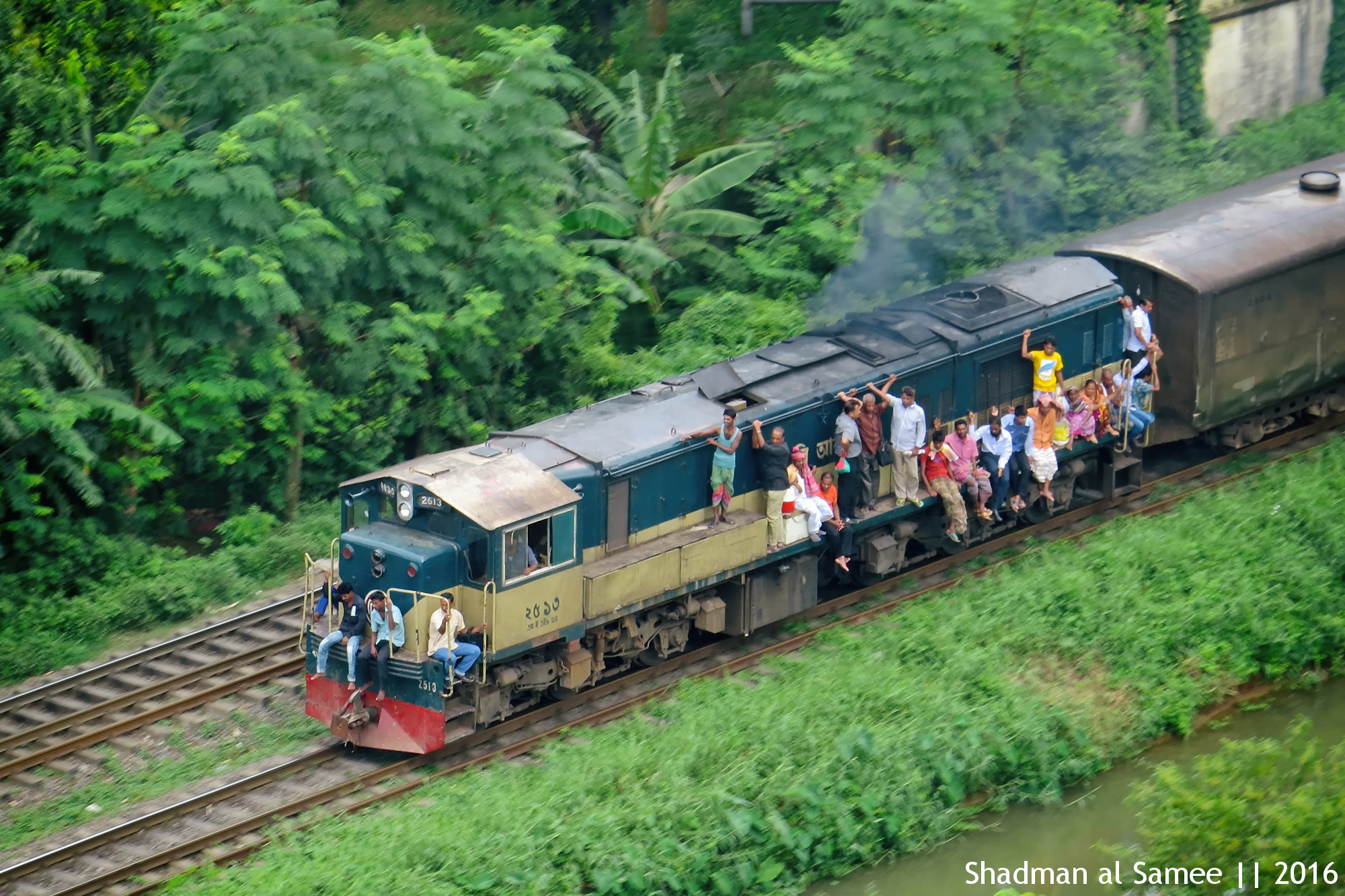 Staff-road rail crossing 2016.